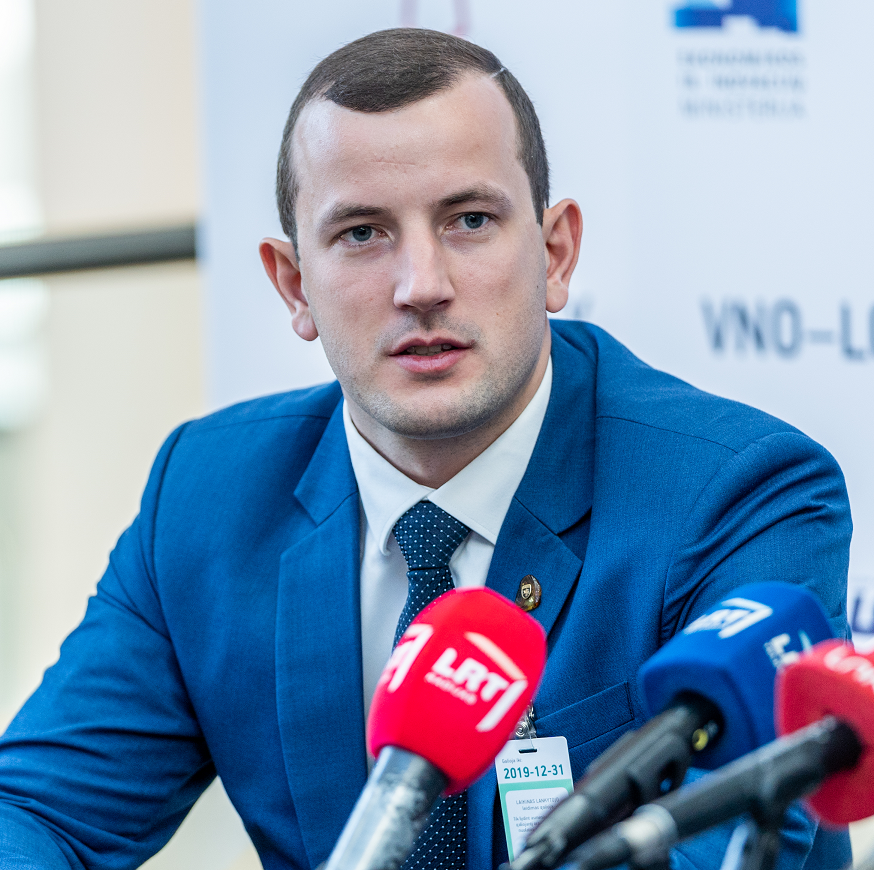 Virginijus Sinkevičius